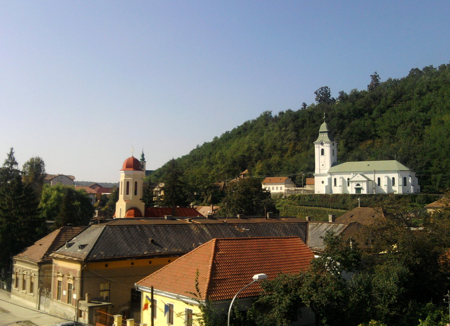 Churches in Şimleu Silvaniei